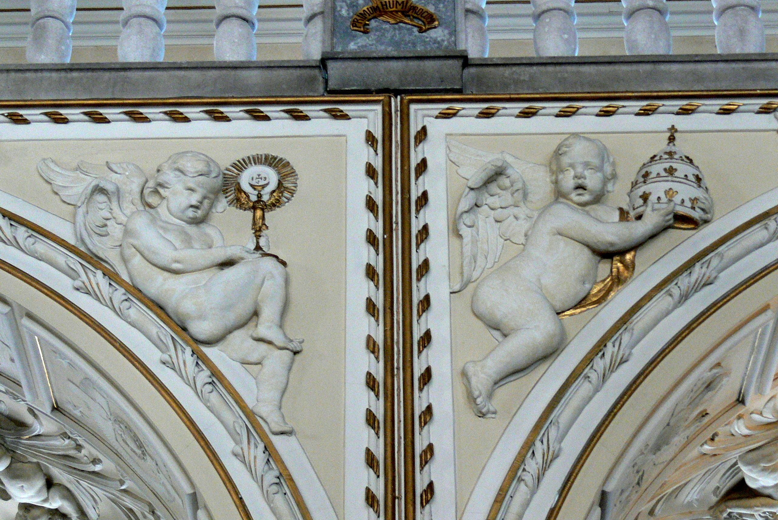 Gorizia ( Italy ). Cathedral: Church galleries - Baroque stuccos ( 18th century ) with putti holding an ostensorium and papal tiara.